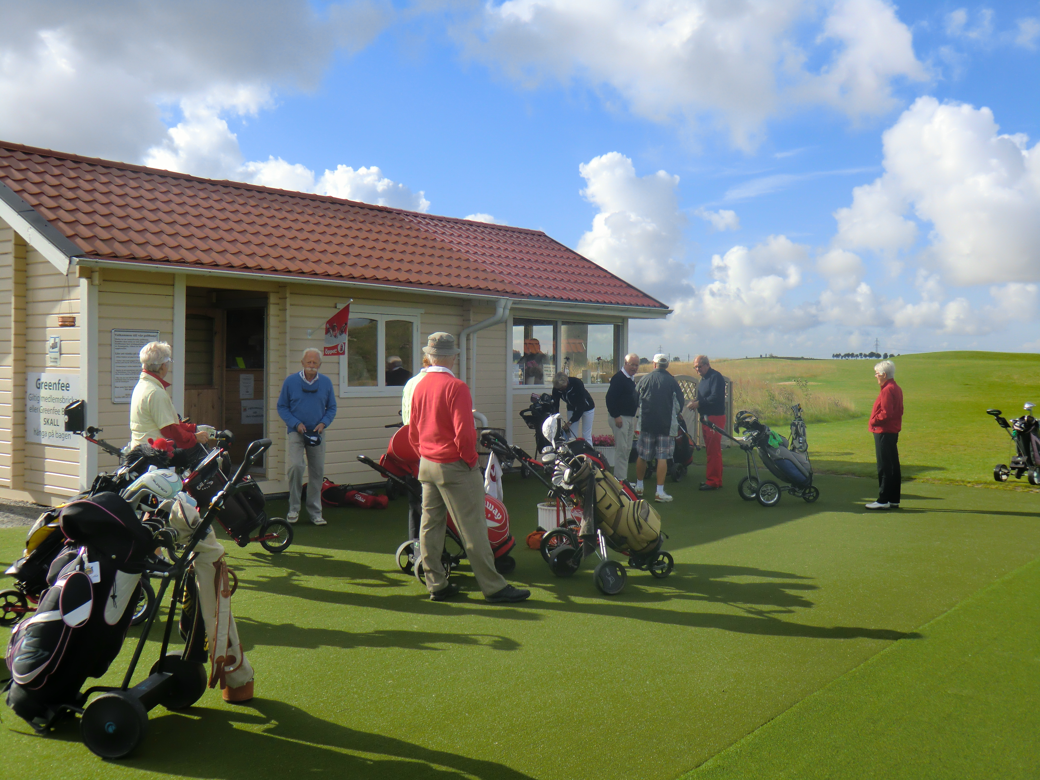 The clubhouse of Oxie GK